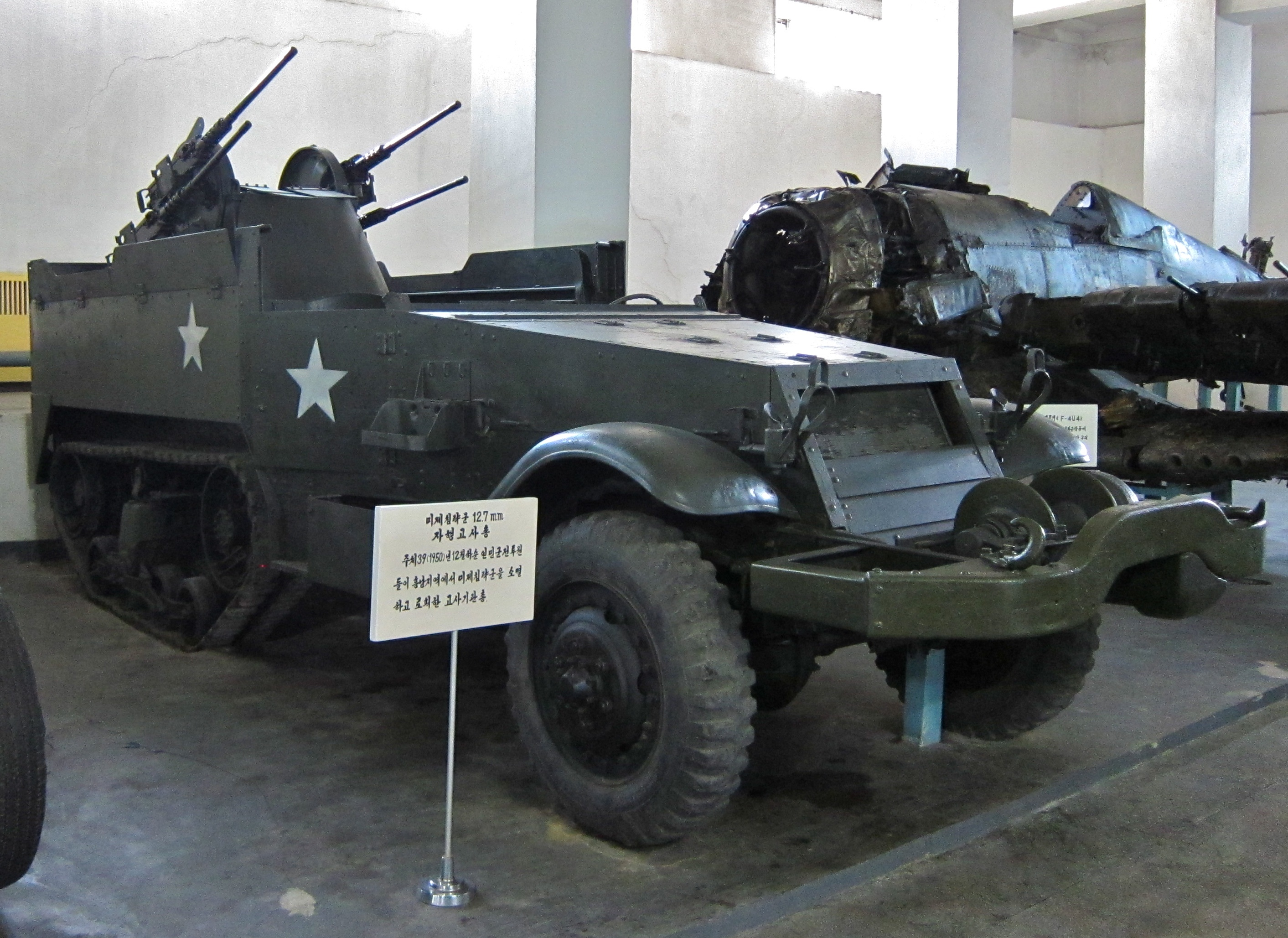 Hall of Captured Weapons and Defeat of US Imperialist Aggressors; Victorious Fatherland Liberation War Museum; Pyongyang, DPRK (North Korea)